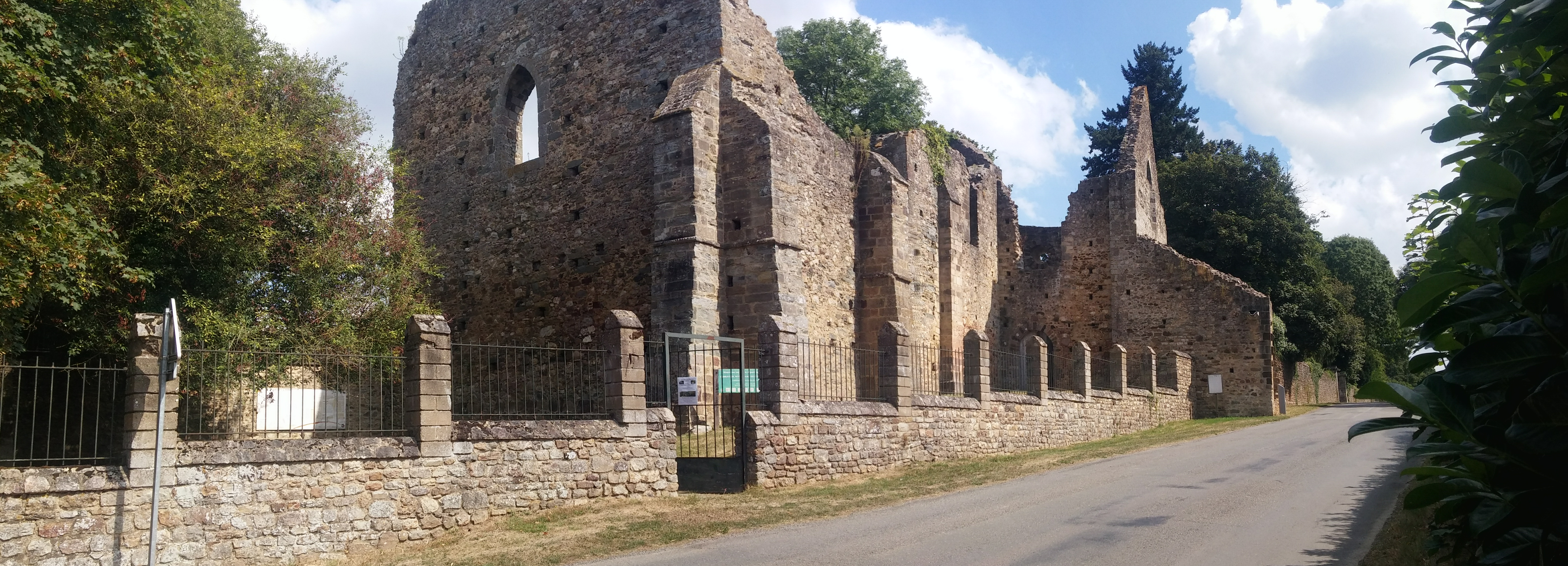 Fondée seconde moitié du XIIe